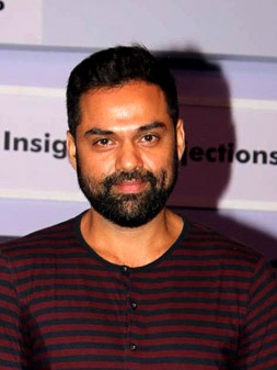 Deol at FICCI FRAMES - Day 3